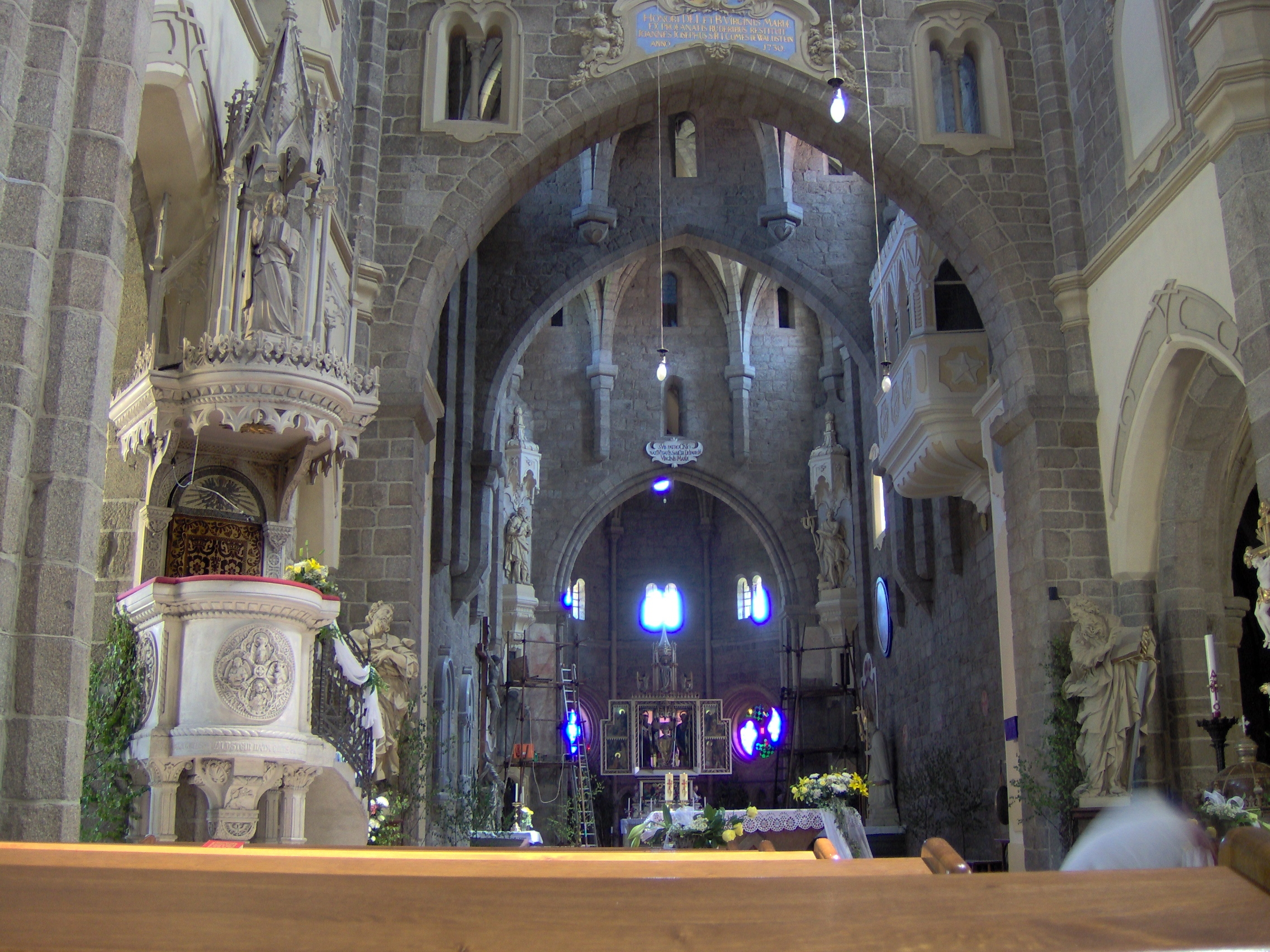 Interior of the St. Prokops Bazilique in Třebíč